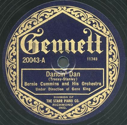 A record of Dancin' Dan by Bernie Cummins and his Orchestra, under the direction of Gene King; issued on Gennett Records